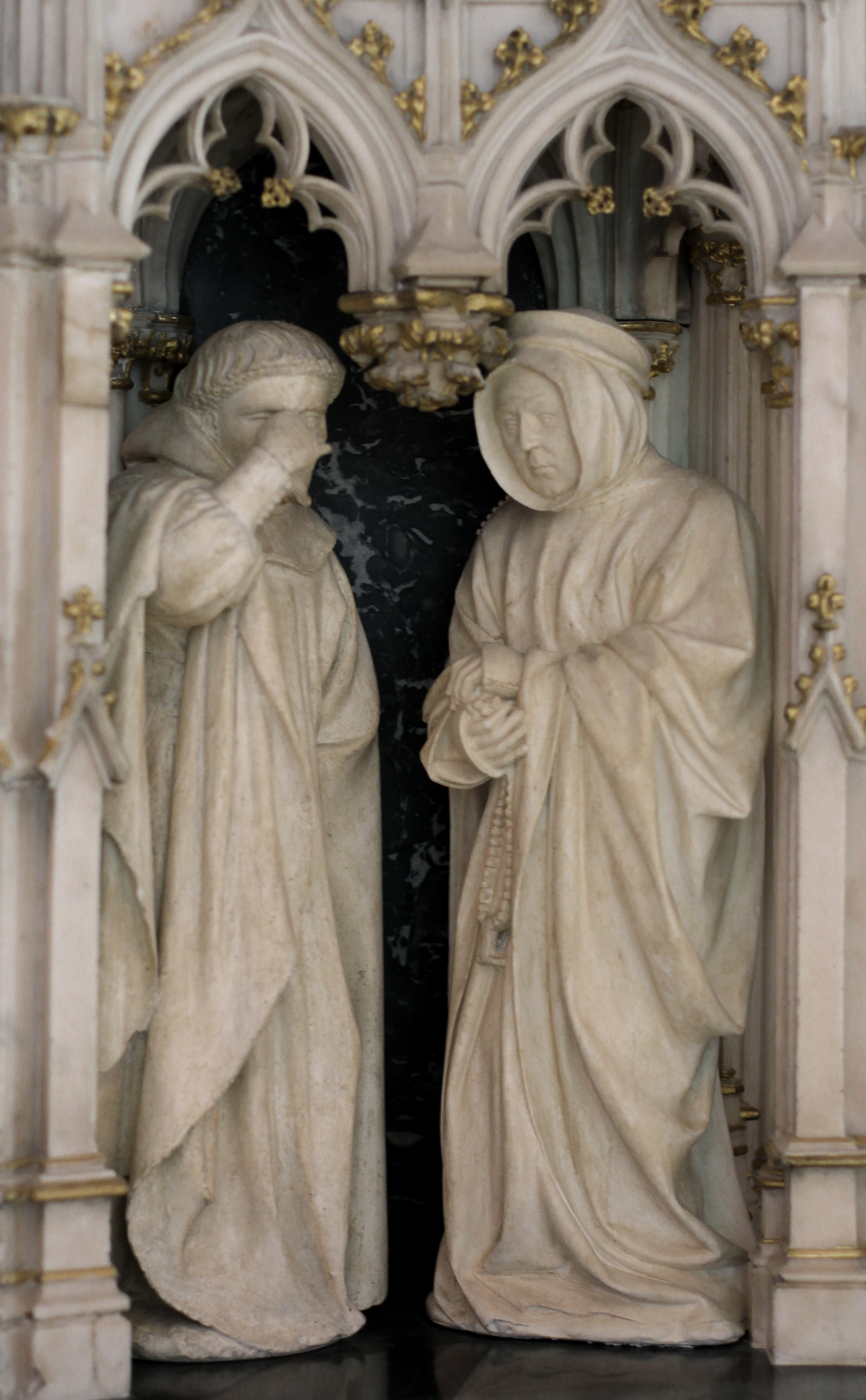 1410 (Placed in Chartreuse de Champmol). Artist: Jean de Marville, Claus Sluter, Claus de Werve